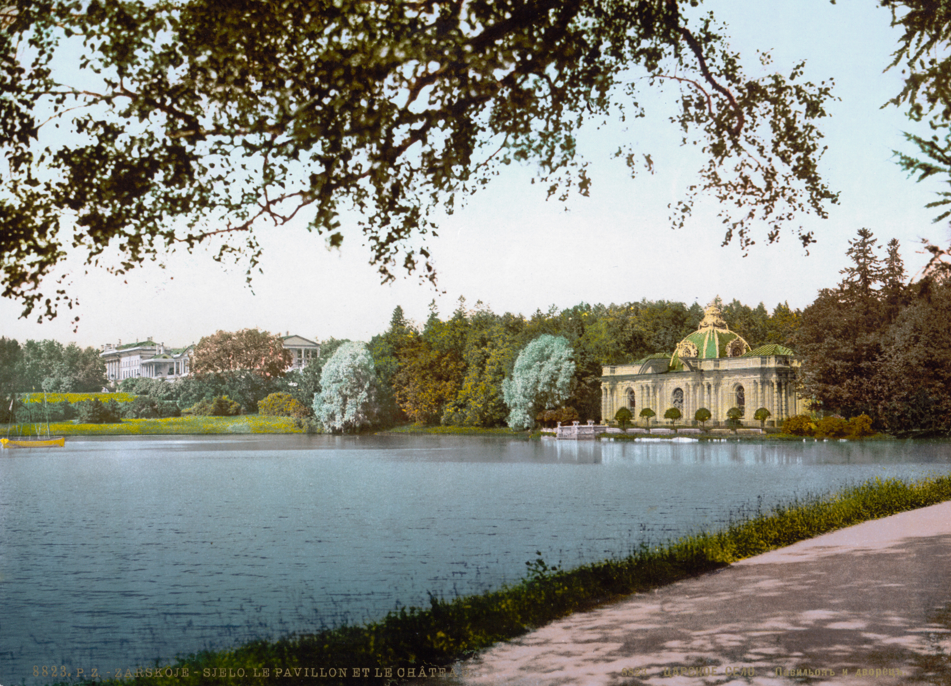 View on Grotto pavillion and Cameron gallery in Tsarskoe_Selo (St Petersburg, Russia). 19th-century photochrome print (1890—1900)